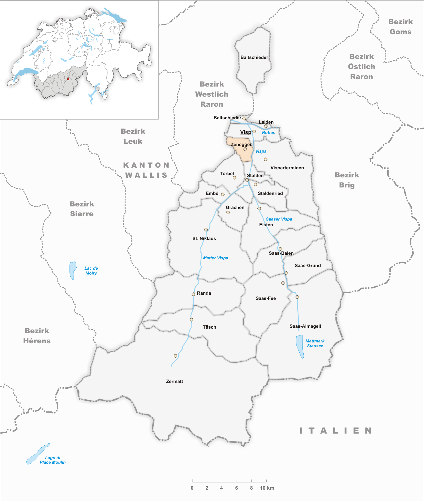 Municipality Zeneggen